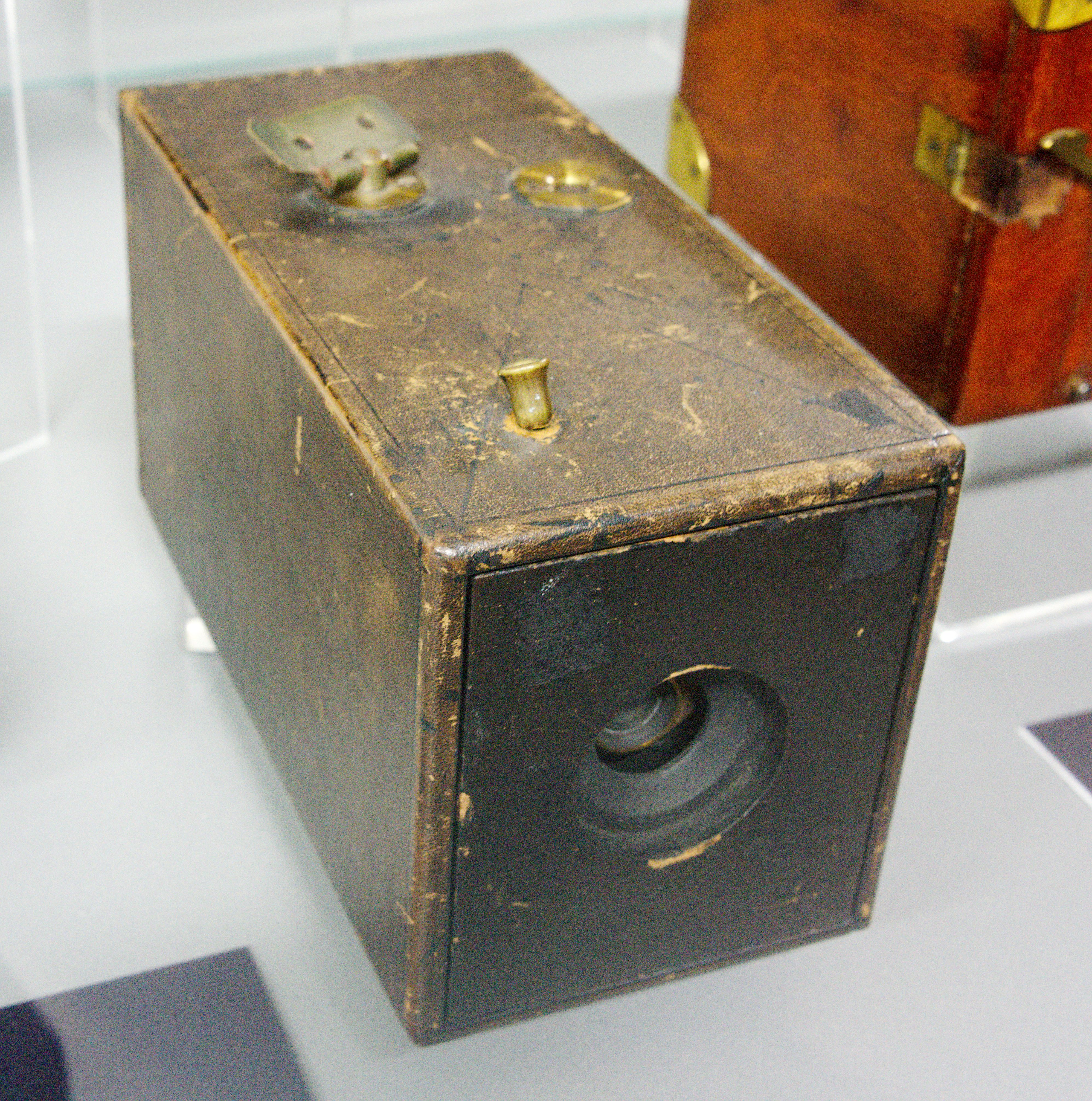 The Kodak 1 camera.